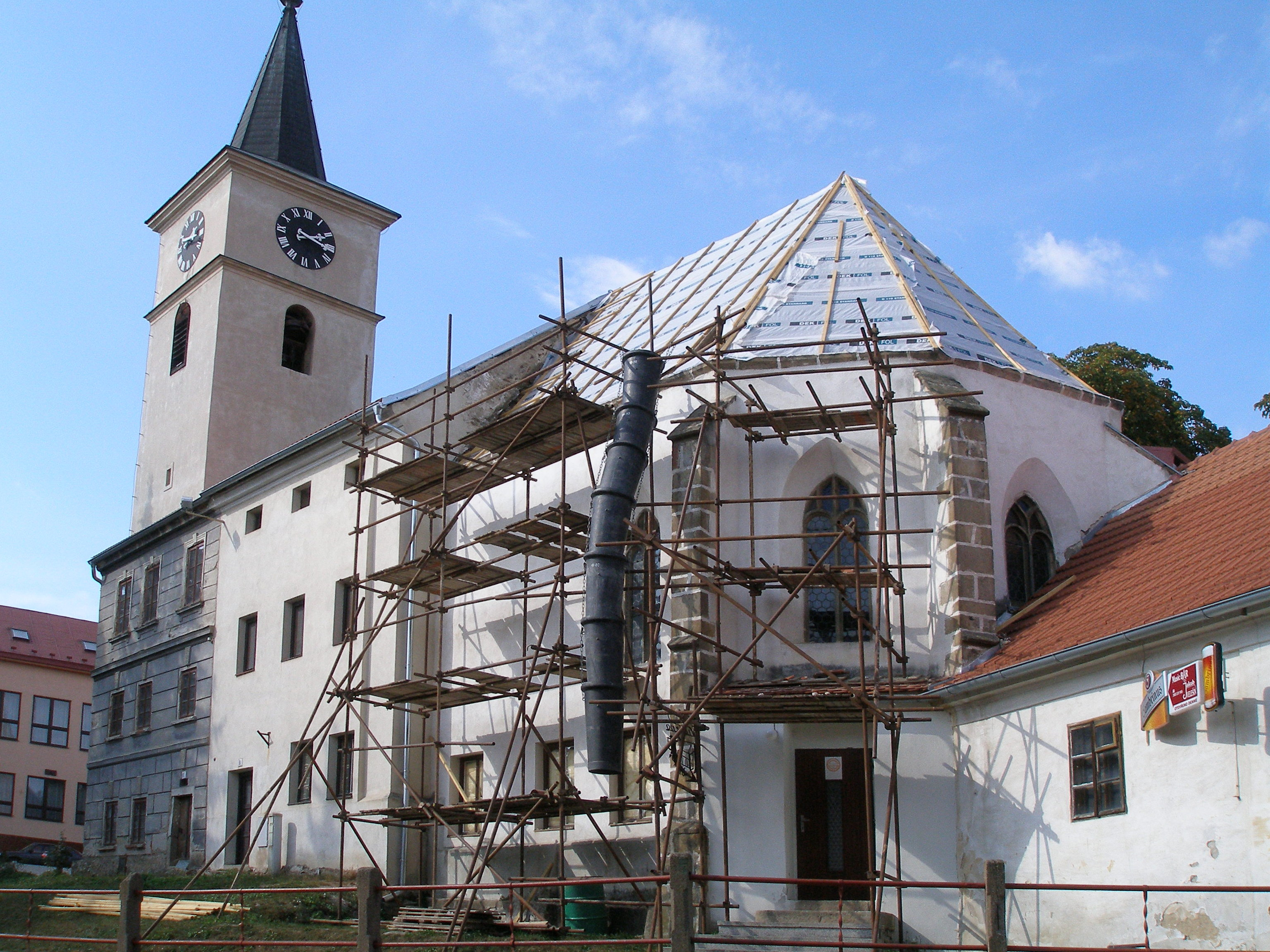 Velešín - the former church on the square, in the beginning of the XIX. century rebuilt to living houses